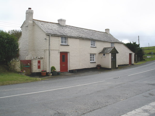 Cottage, near Tresparrett Possibly a former post office.